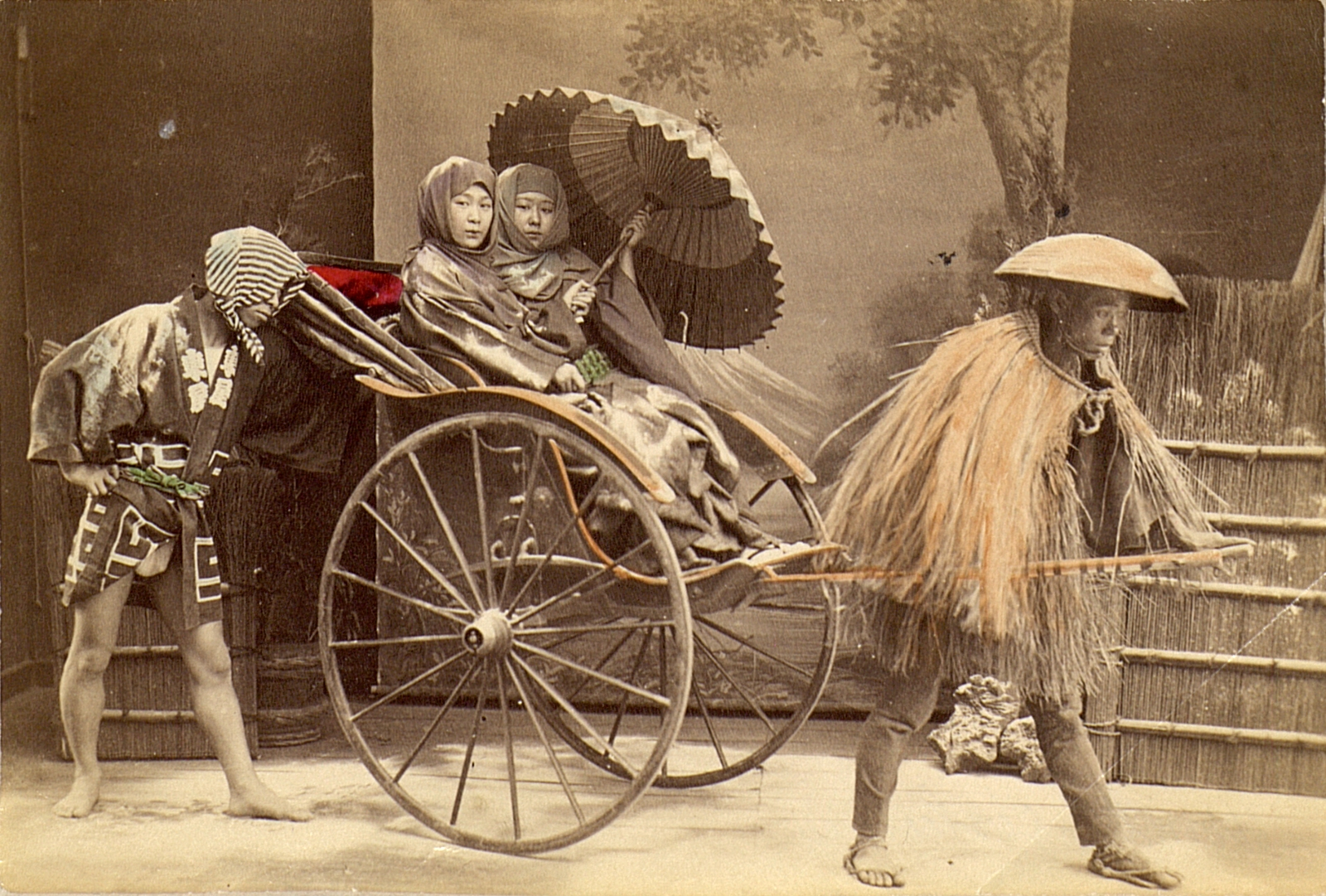 Rickshaw driver picking up two clients. Photo courtesy UVM Libraries' Center for Digital Initiatives :: The University of Vermont :: Burlington, VT 05405